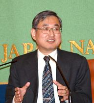 Kazuto Ikeo